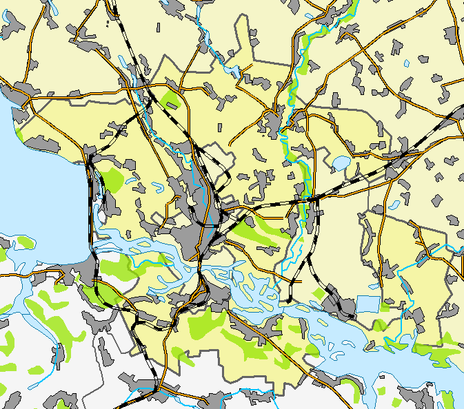 Map of Kremenchuk Raion, Poltava Oblast, Ukraine